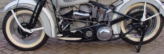 Harley-Davidson 45-UL from 1945 with White wall tires